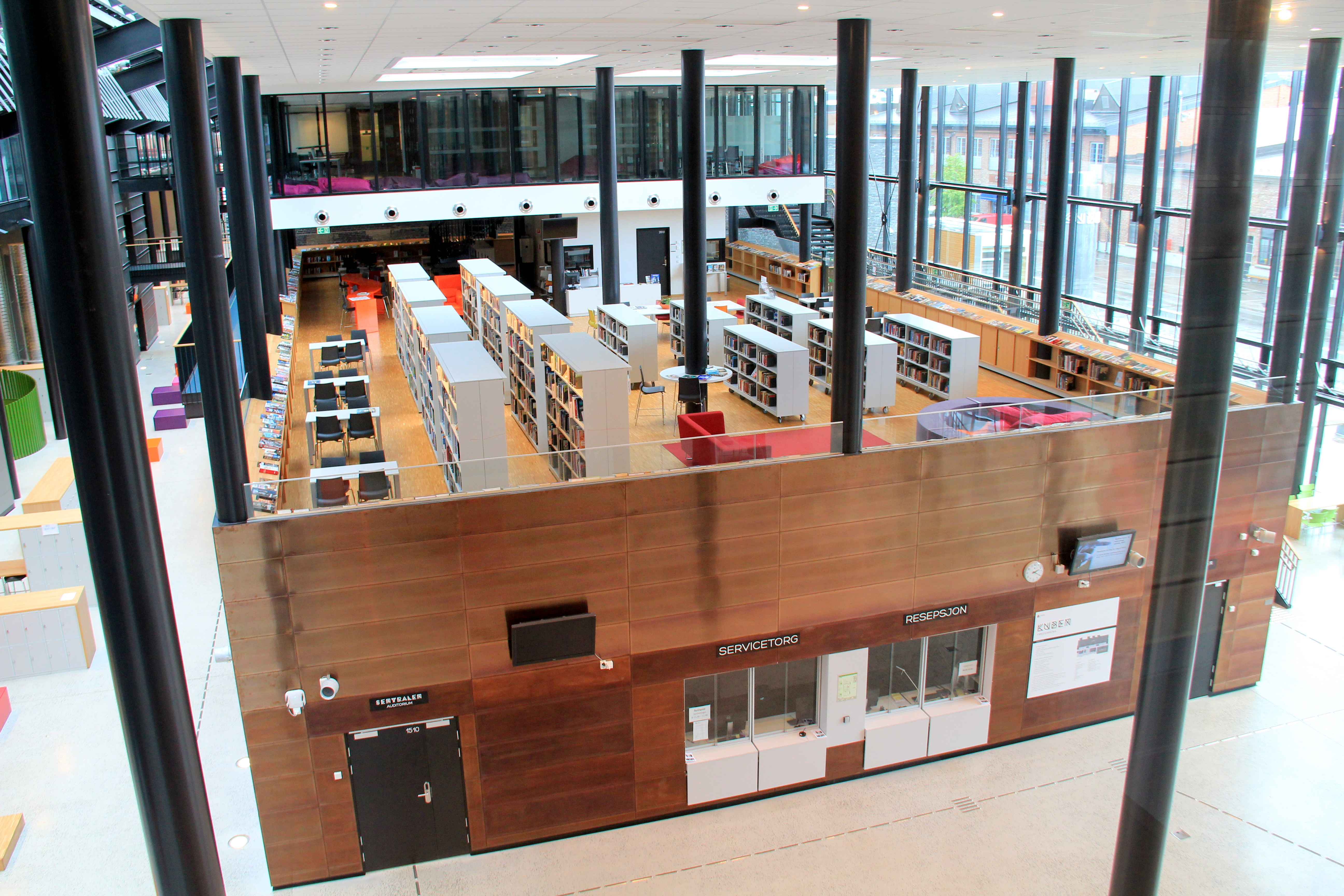 The Library at Kuben Upper Secondary School